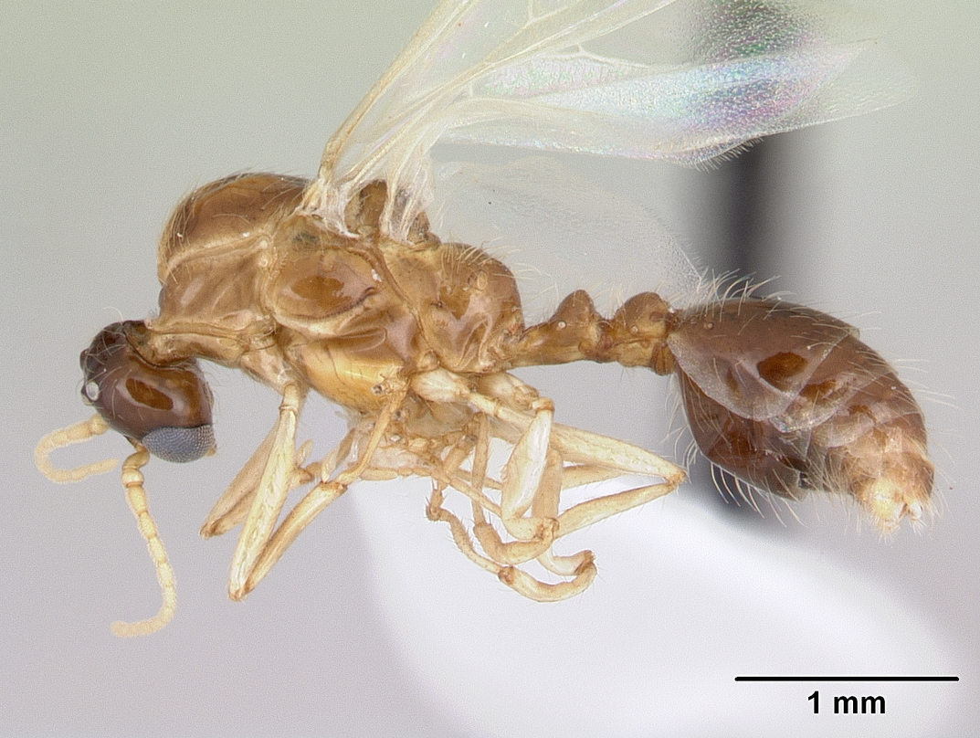 Profile view of ant Solenopsis daguerrei specimen casent0178132.